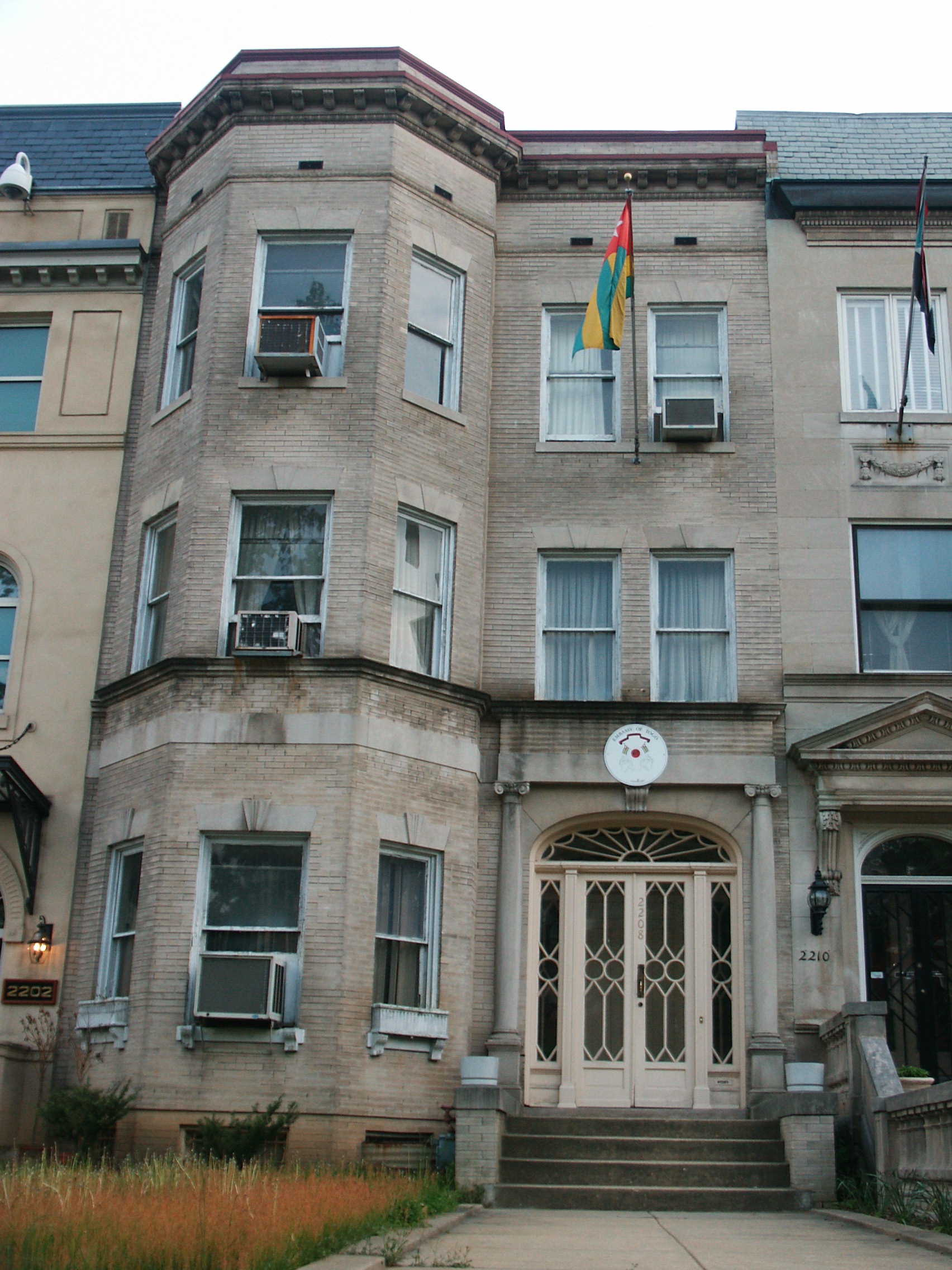 This photograph depicts the Embassy of the Togolese Republic in the United States, located at 2208 Massachusetts Ave. NW in Washington, D.C.